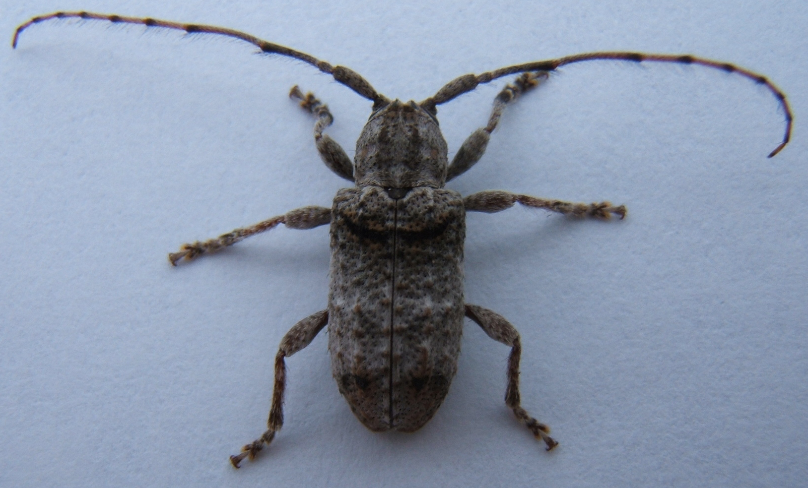 Ecyrus arcuatus Gahan 1892 found in College Station, TX